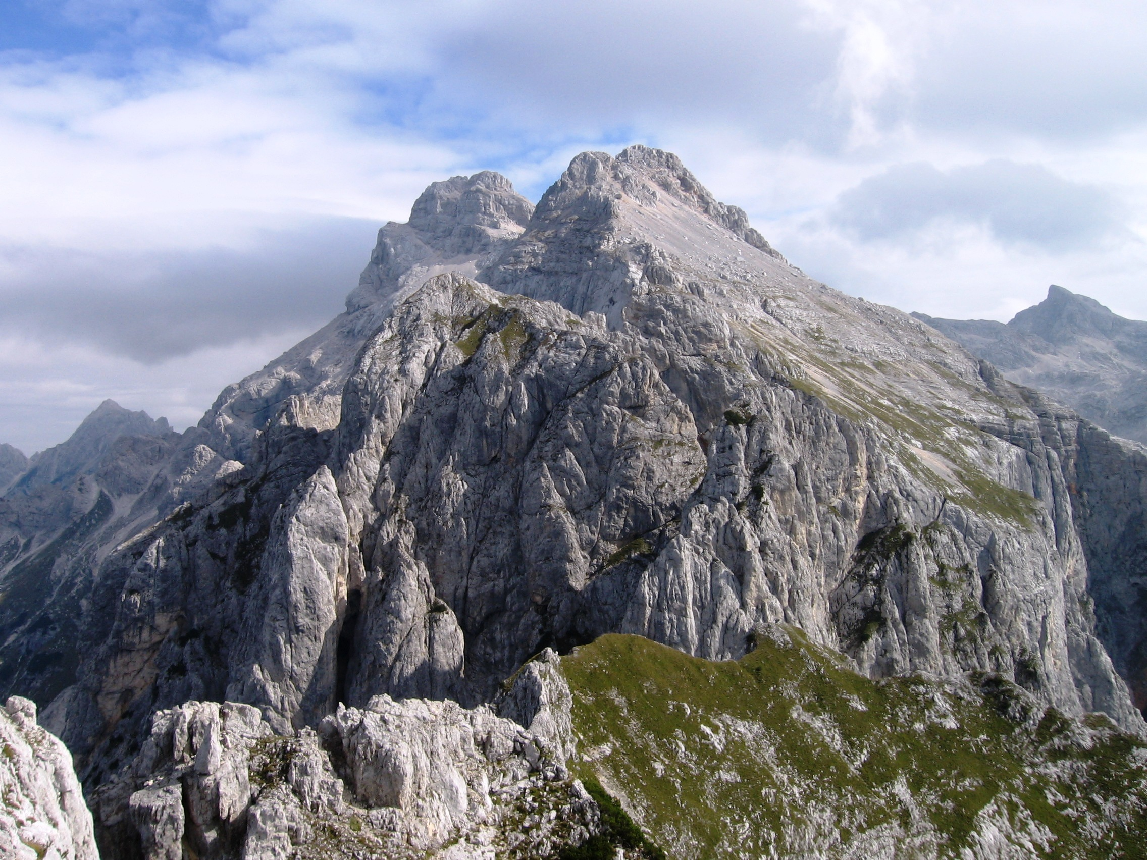 Mt. Planja with Razor behind, Škrlatica is on the left and Stenar on the right side, Julian Alps, Slovenia. From Goličica.